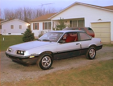 1986 Pontiac Sunbird photographed by vegagt85 in USA.